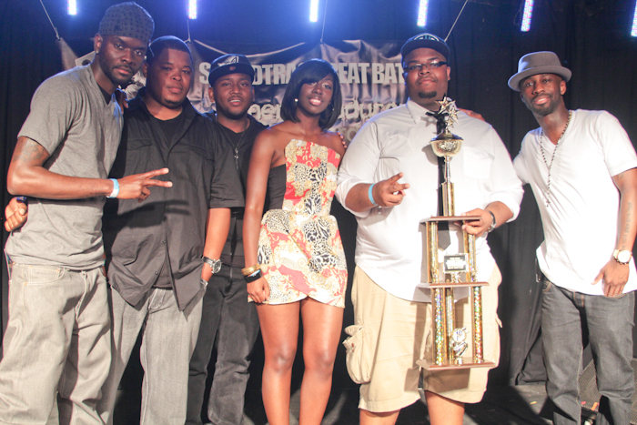 2010 Soundtrack Beat Battle Grand Prize Winner Mike Ewing in center with trophy, at Rocketown venue in Nashville